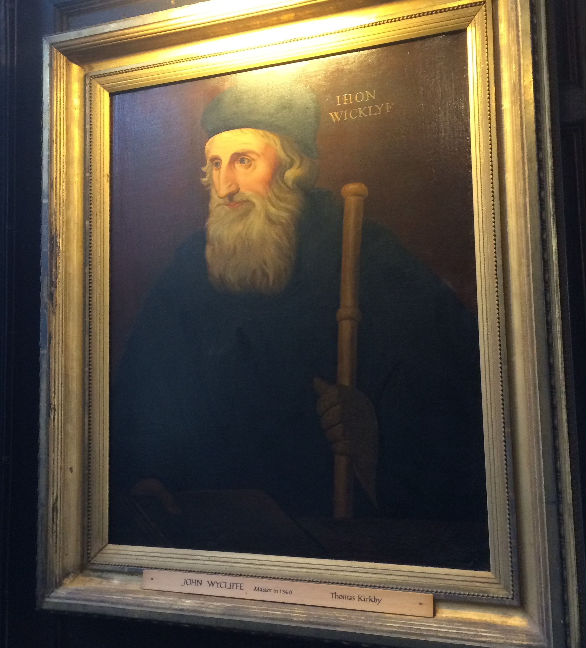 Portrait of Wycliffe in Balliol College hall